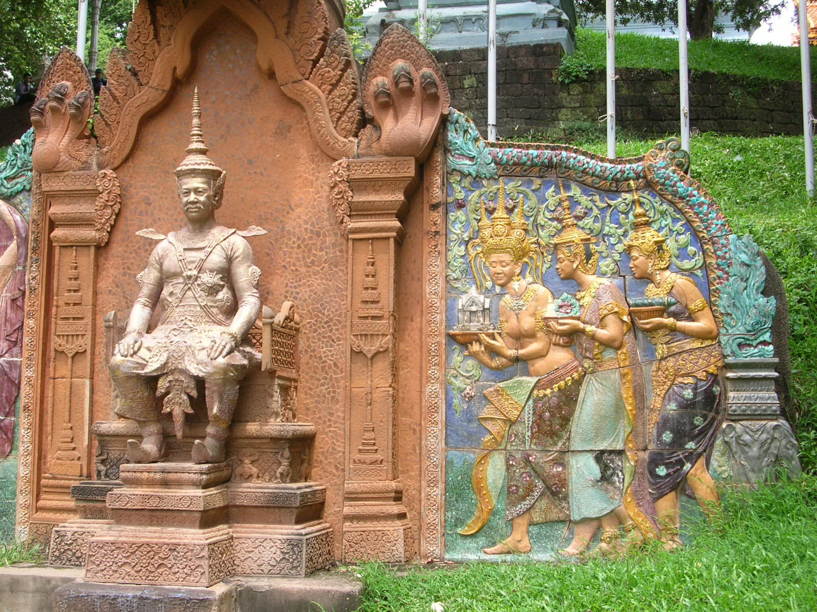 Under a 1907 treaty, the provinces of Battambang and Siem Reap were returned to Cambodia from Siam (now Thailand). This photo was taken by Brett Matthews at Wat Phnom in Phnom Penh in September 2004. It depicts King Sisowath receiving the two provinces (and Preah Vihear, returned in 1904).